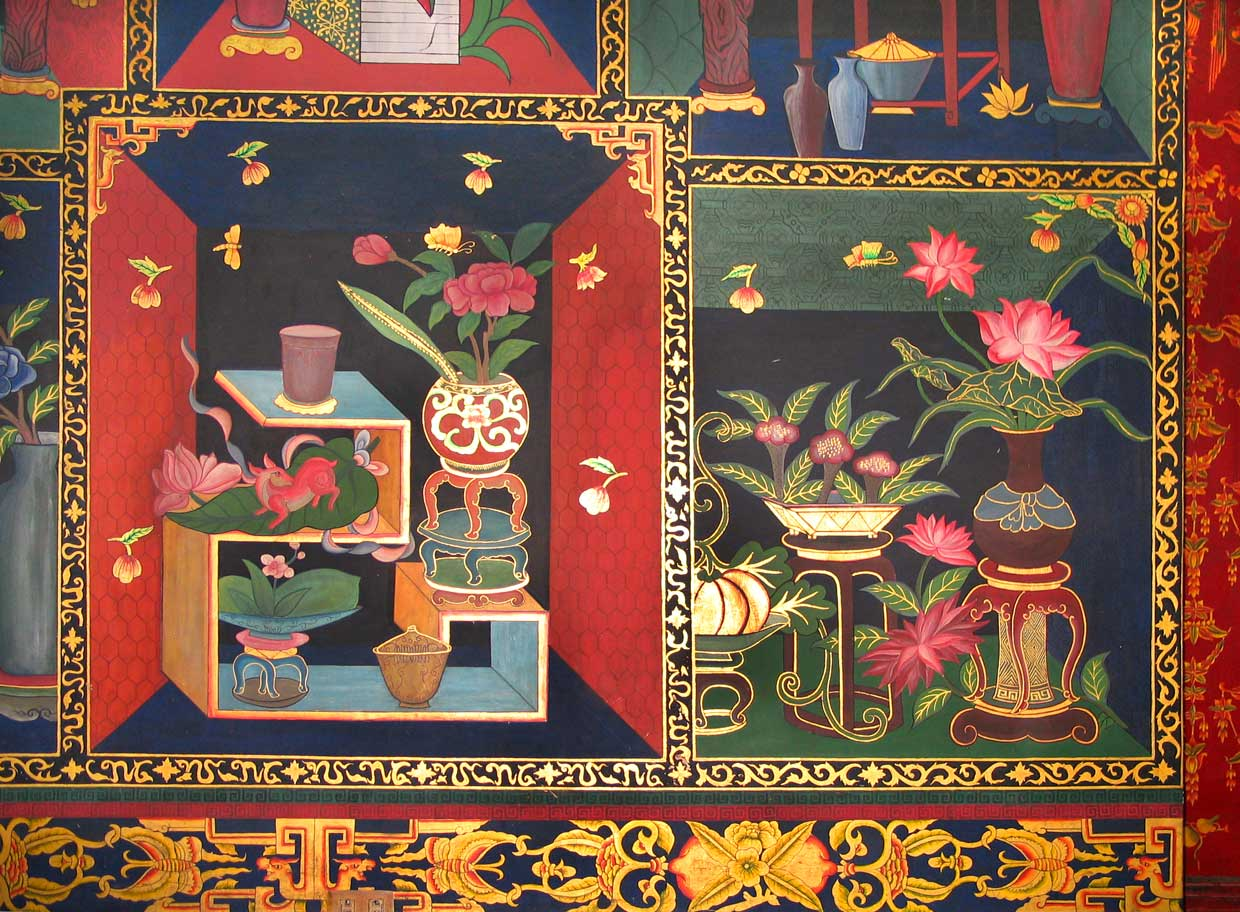 Murals in northern viharn of Wat Phanan Choeng, Ayutthaya, Thailand.